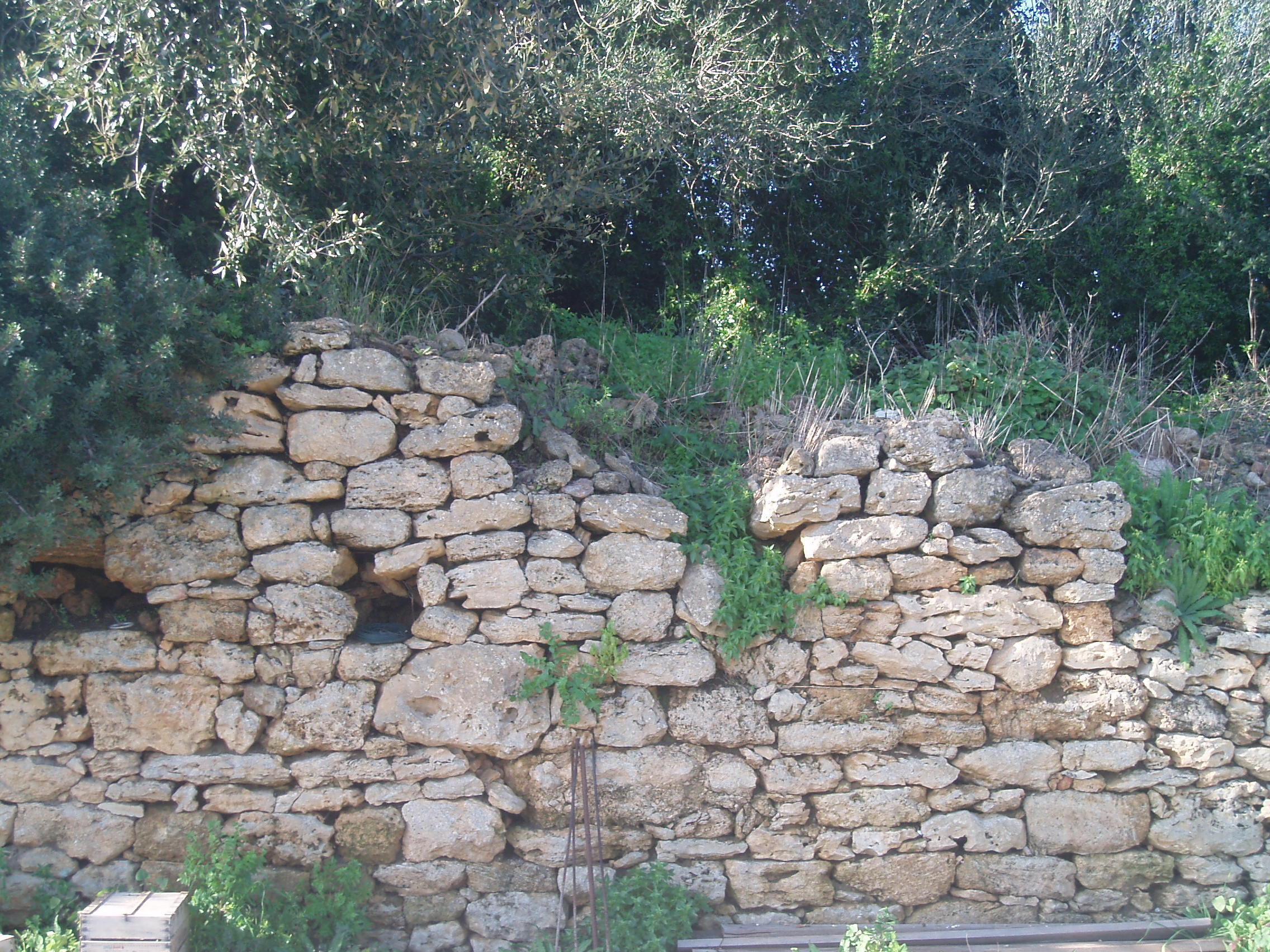 A sight of messapic walls of the archeological site of Valesio - Apulia